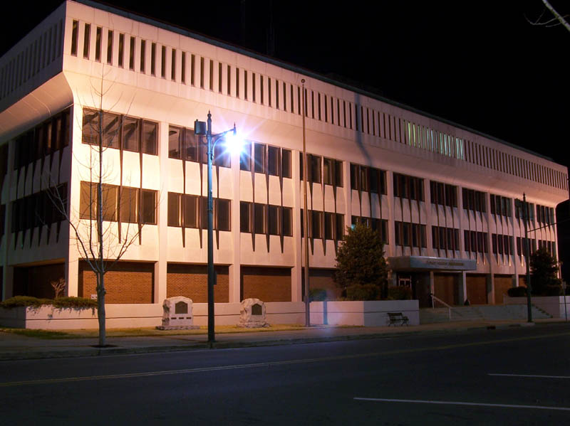 Stanly County Courthouse